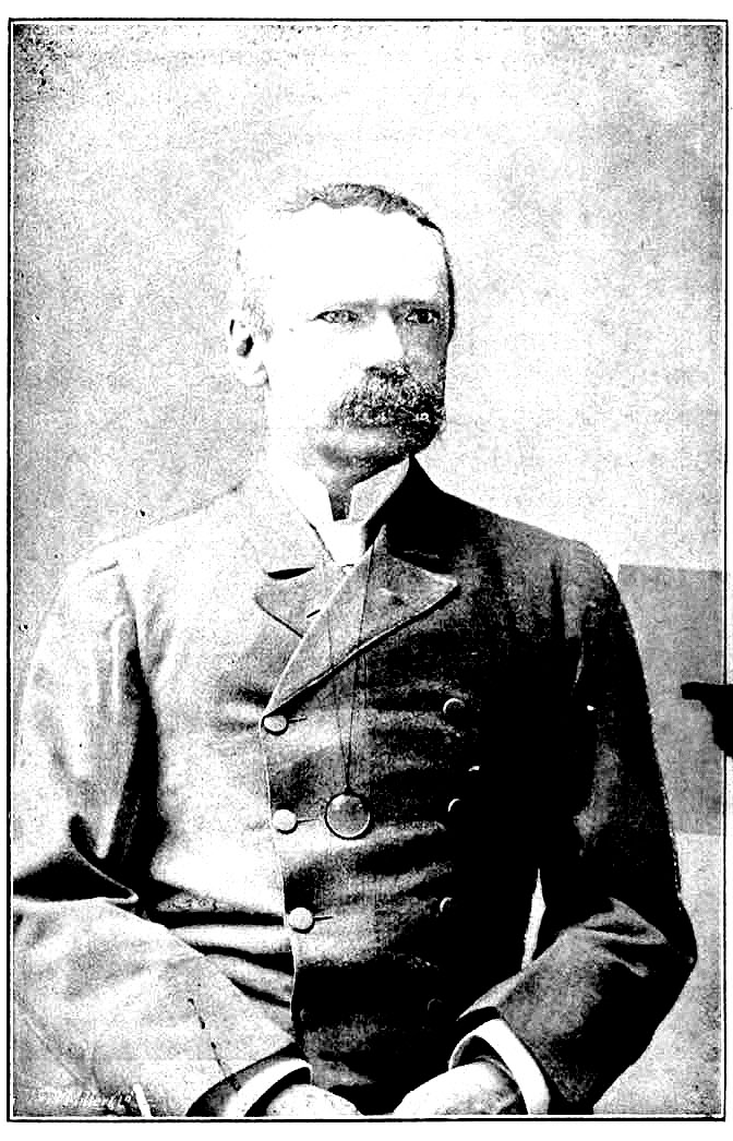 Photo of Arthur Anthony Macdonell from Bengali magazine Prabasi, Vol 1